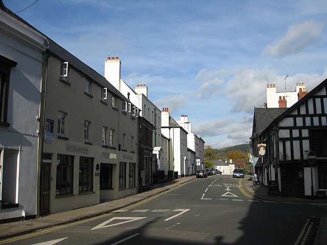 St James' Street, Monmouth Queen's Head pub on the right.